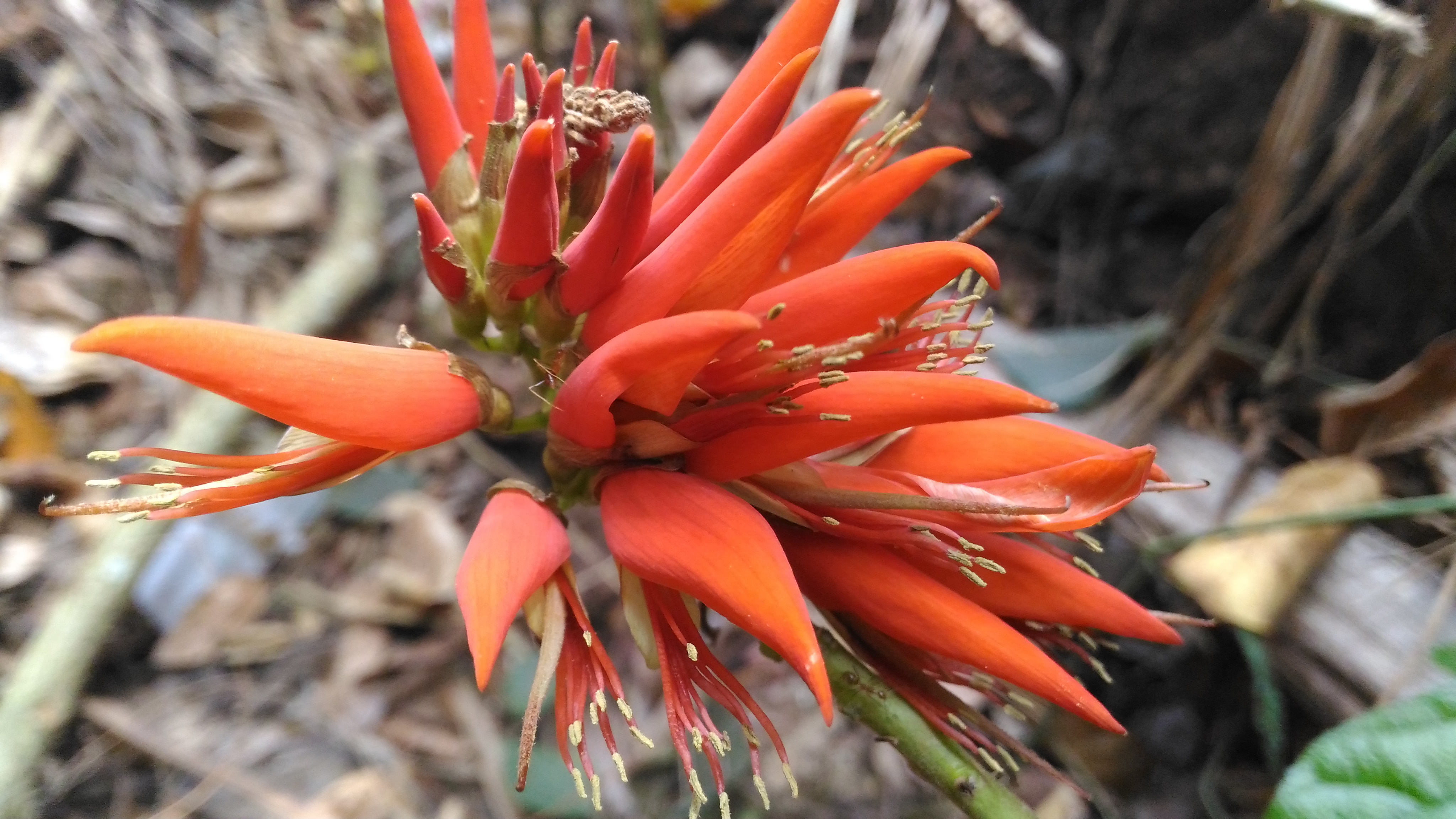 Erythrina_indica_flowers